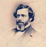 John F. Starr, US Representative from New Jersey